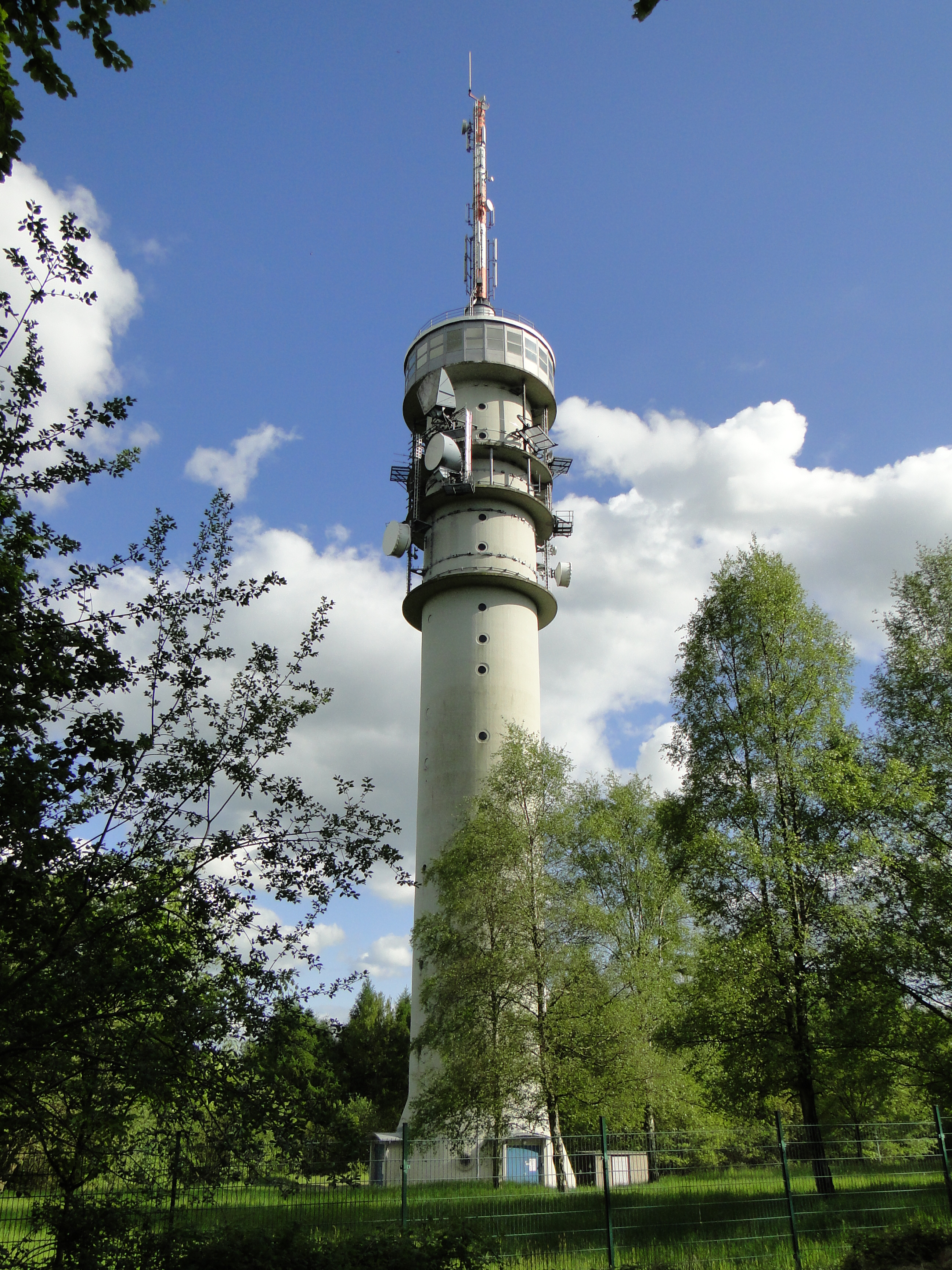 TV tower near Schlemmin, district Rostock, Mecklenburg-Vorpommern, Germany